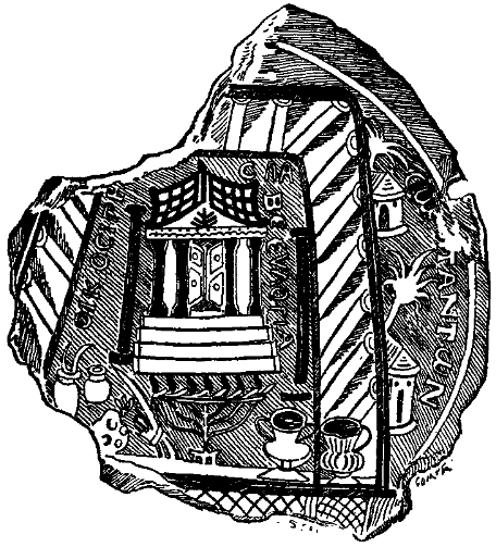 An illustration from the Encyclopaedia Biblica, a 1903 publication which is now in the public domain. Fig. 4 for article "Temple". Image of a 3rd century (AD) glass bowl which depicts the Jerusalem temple. In relation to the biblical Jachin and Boaz, note the detached black pillars which are shown on either side of the entrance steps.